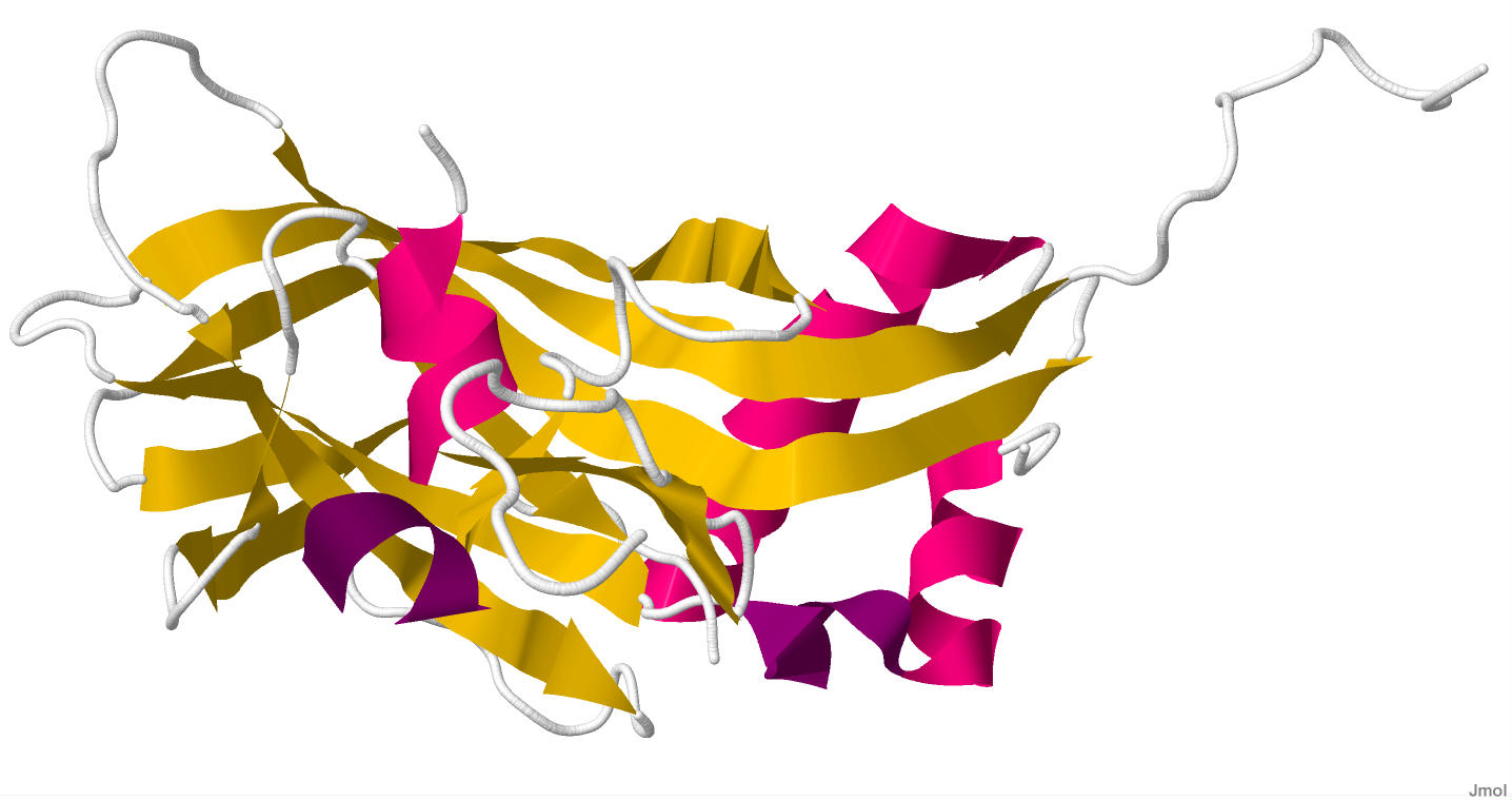 Polyhedrin protein (2WUX) from virus baculovirus Autographa californica (see Baculoviridae, Structure). See PDB 2WUX and [1]